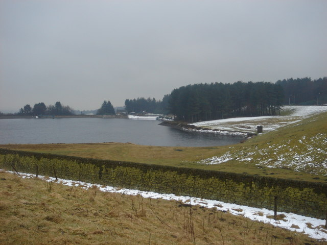 Dingle reservoir, Belmont.